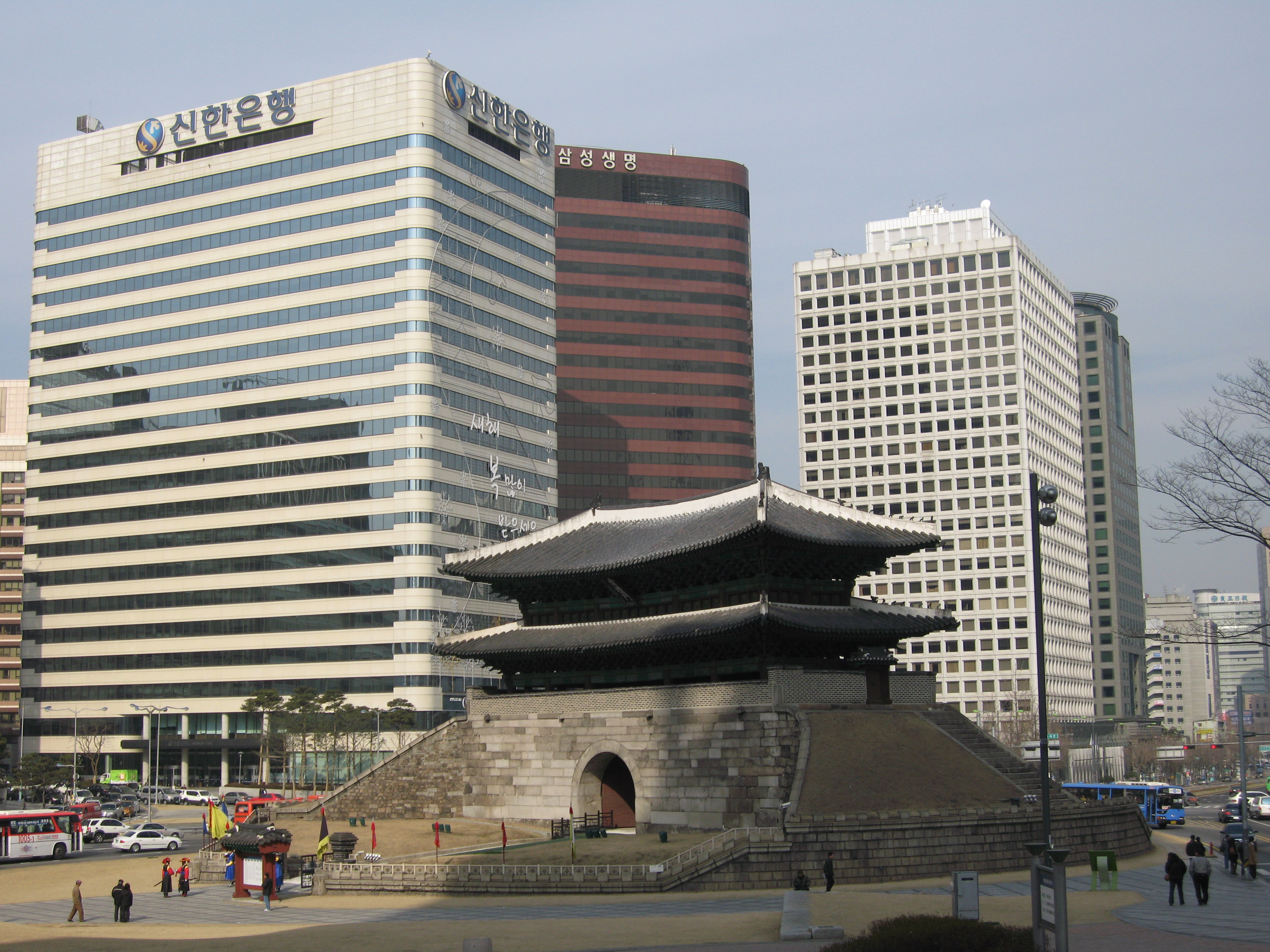 Namdaemun, or Sungnyemun located in Seoul, South Korea